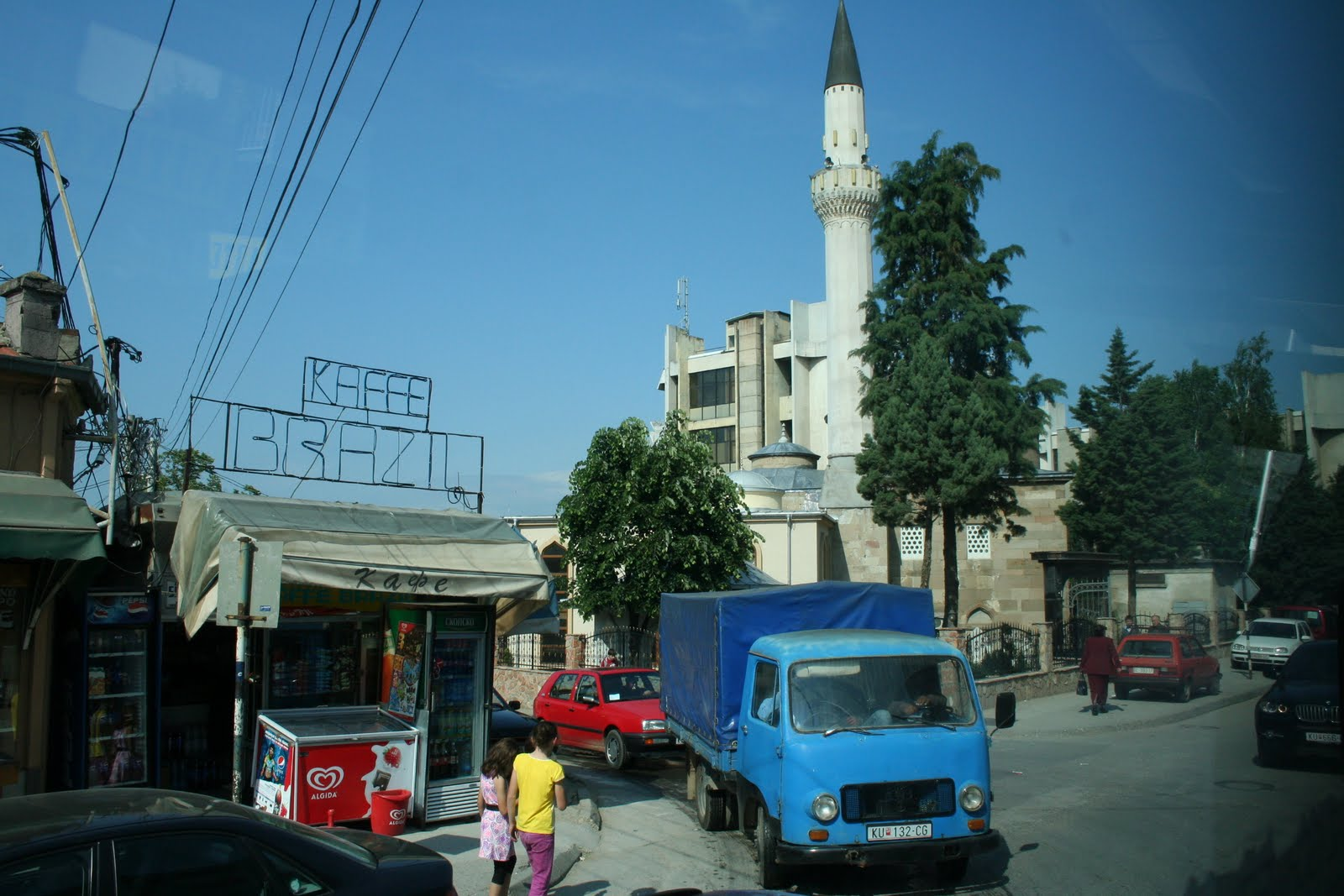 Mosque in Kumanovo